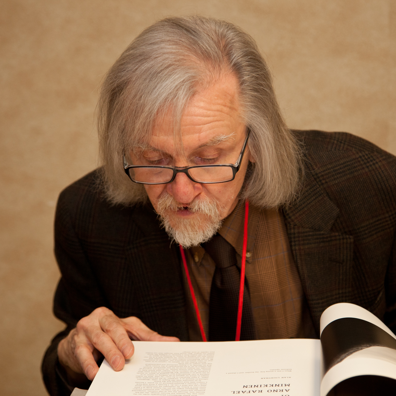 Arno Rafael Minkkinen at the SPE (Society for Photographic Education) in Atlanta, GA.